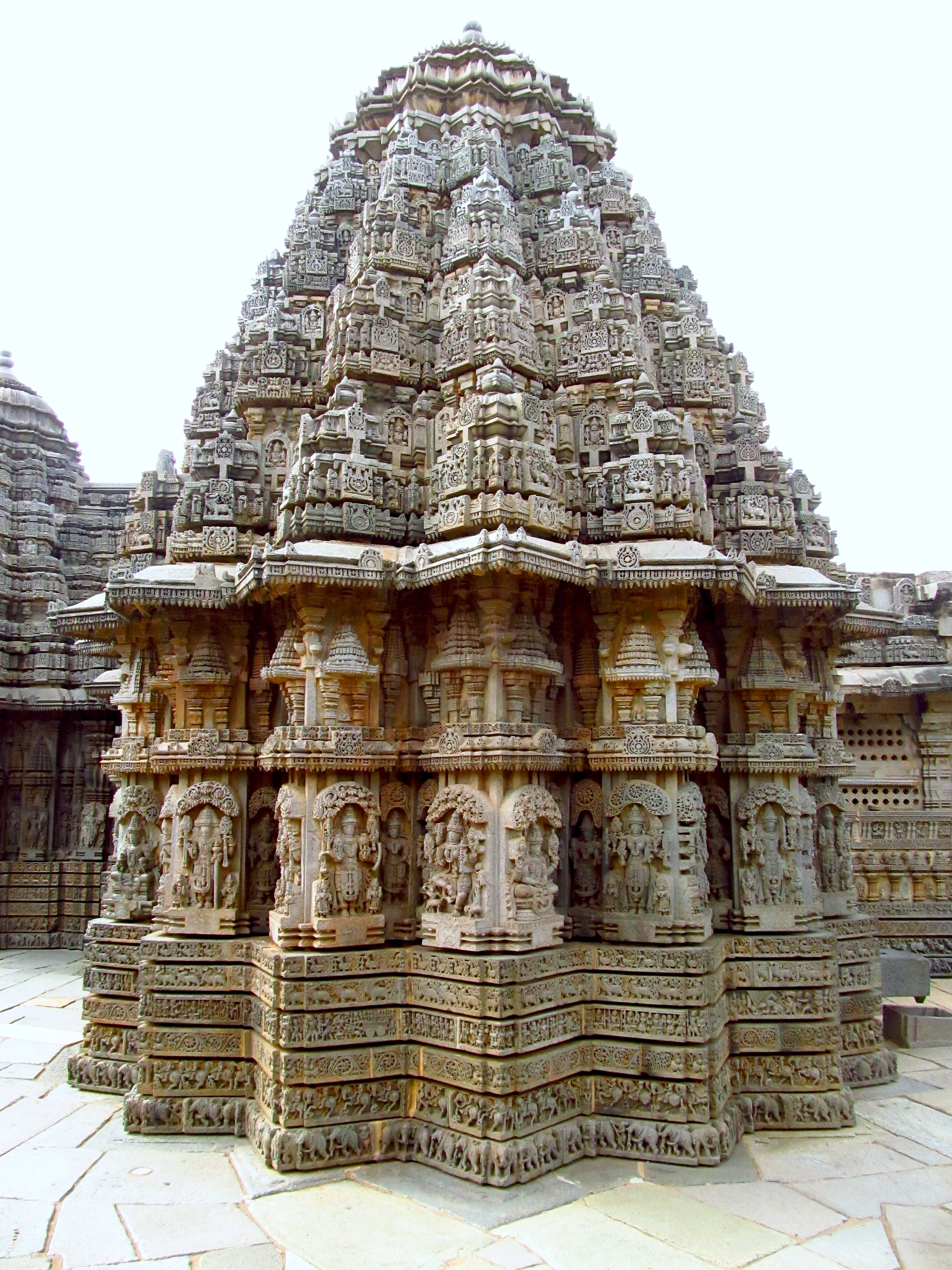 One of the intricately carved sides of the Keshava Temple at Somanathapura